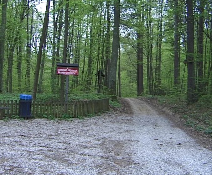 Sosny Taborskie nature reserve, Warmian-Masurian Voivodeship, Poland